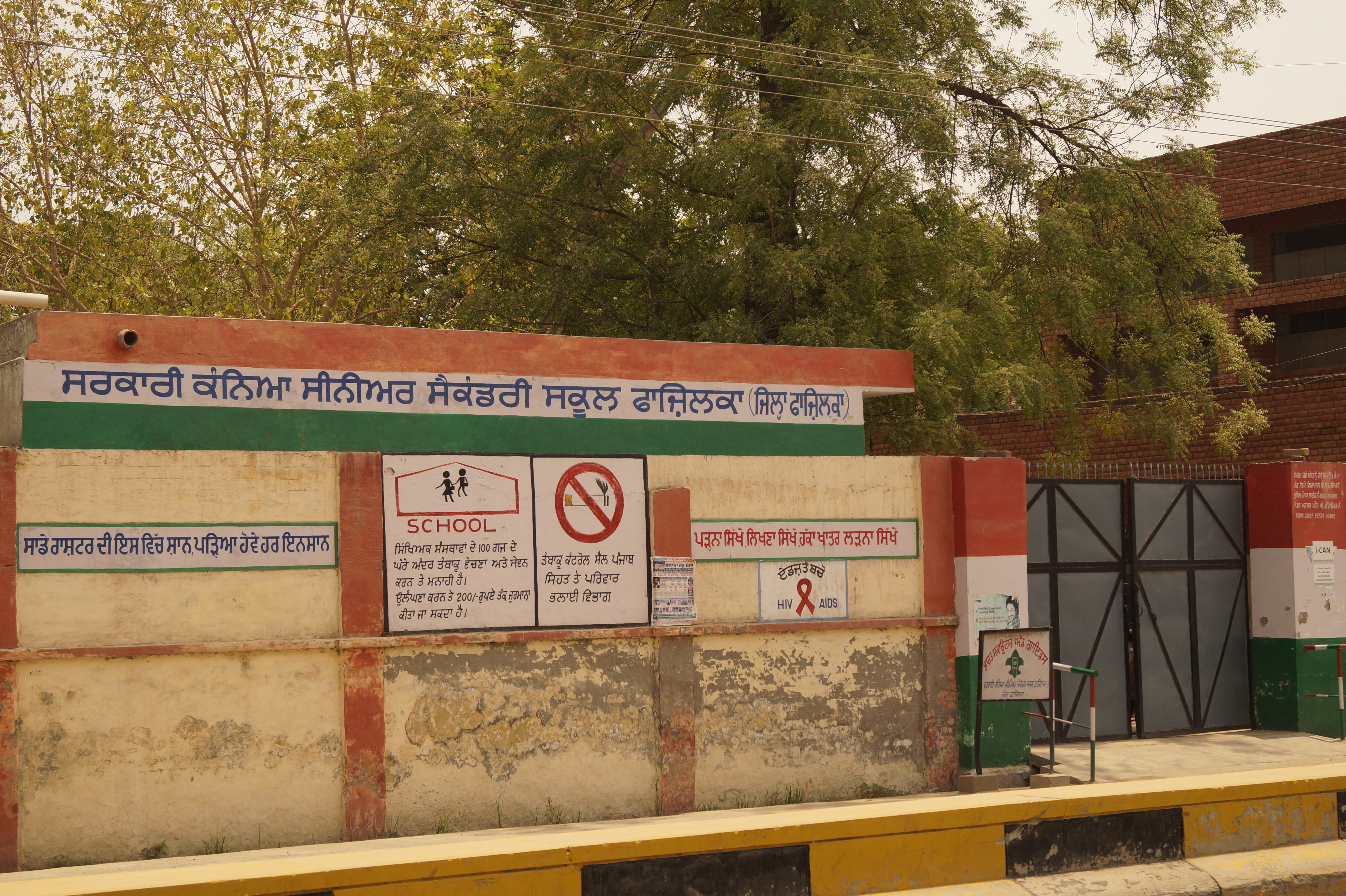 Govt. senior secondary school Fazilka